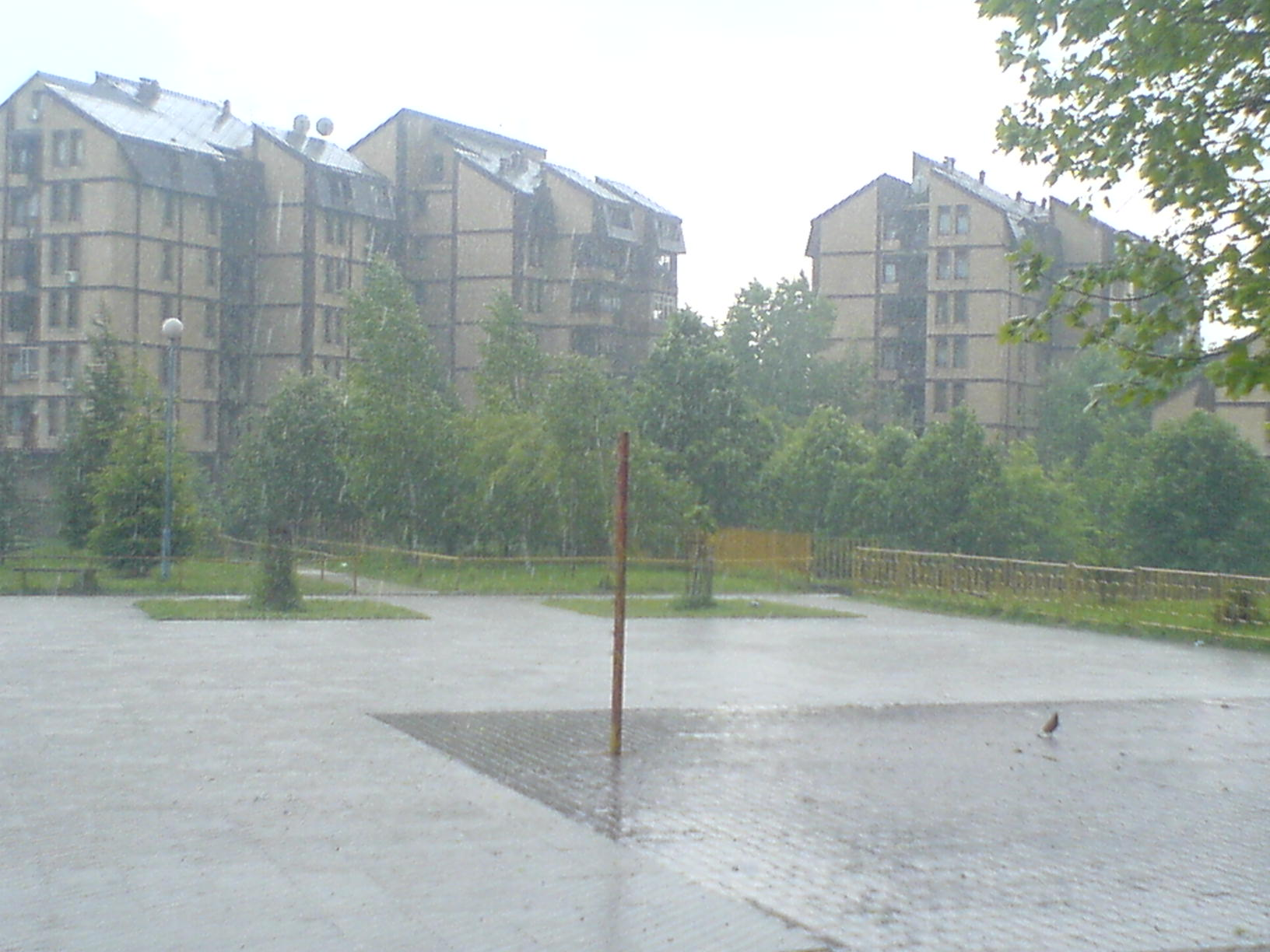 Cerak residental buildings